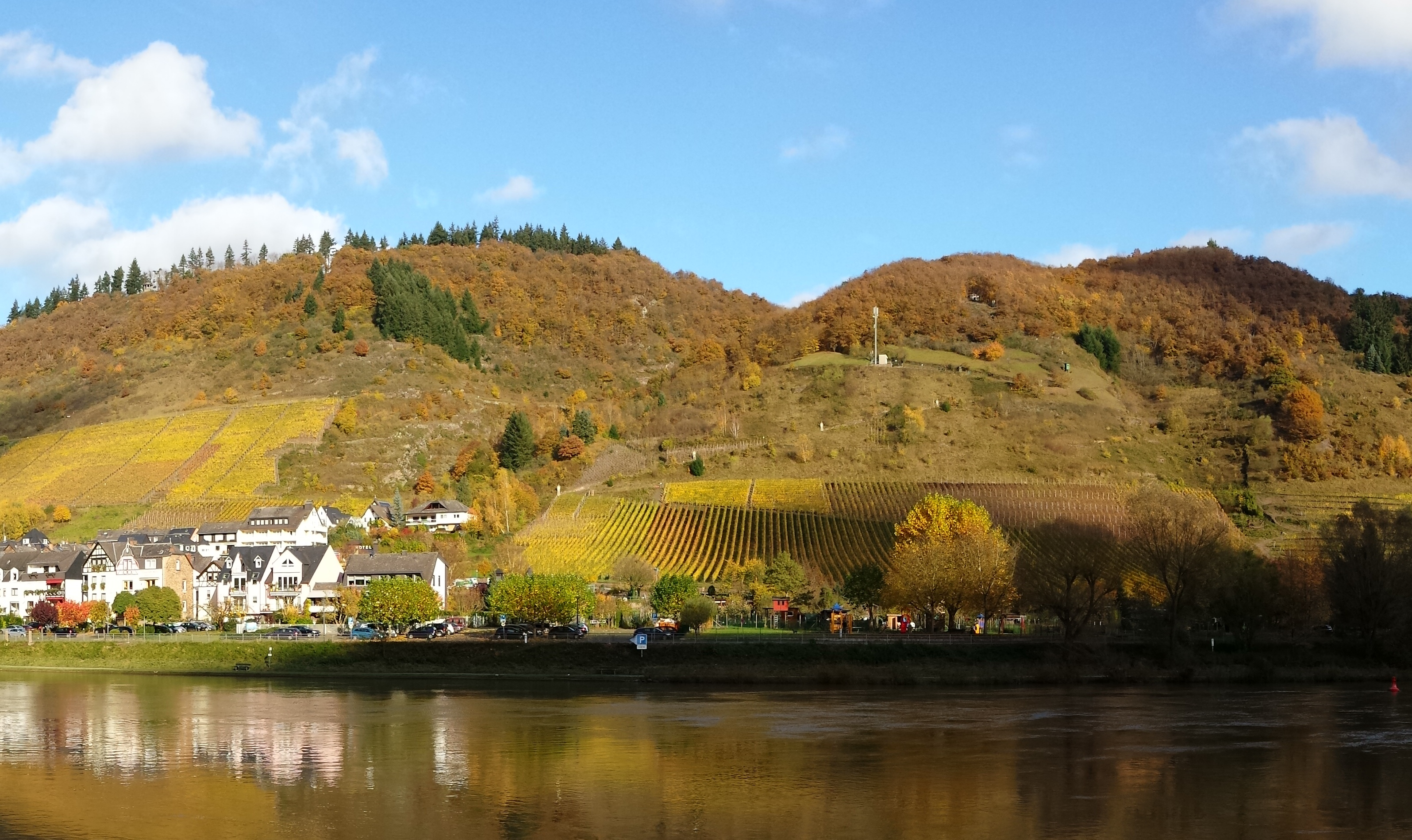 Valley of the Hulle-Creek in Cond